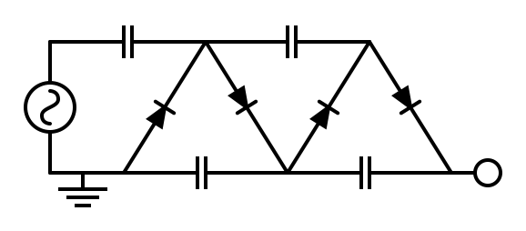 A circuit diagram for a Cockcroft-Walton generator A circuit diagram for a Cockcroft-Walton generator